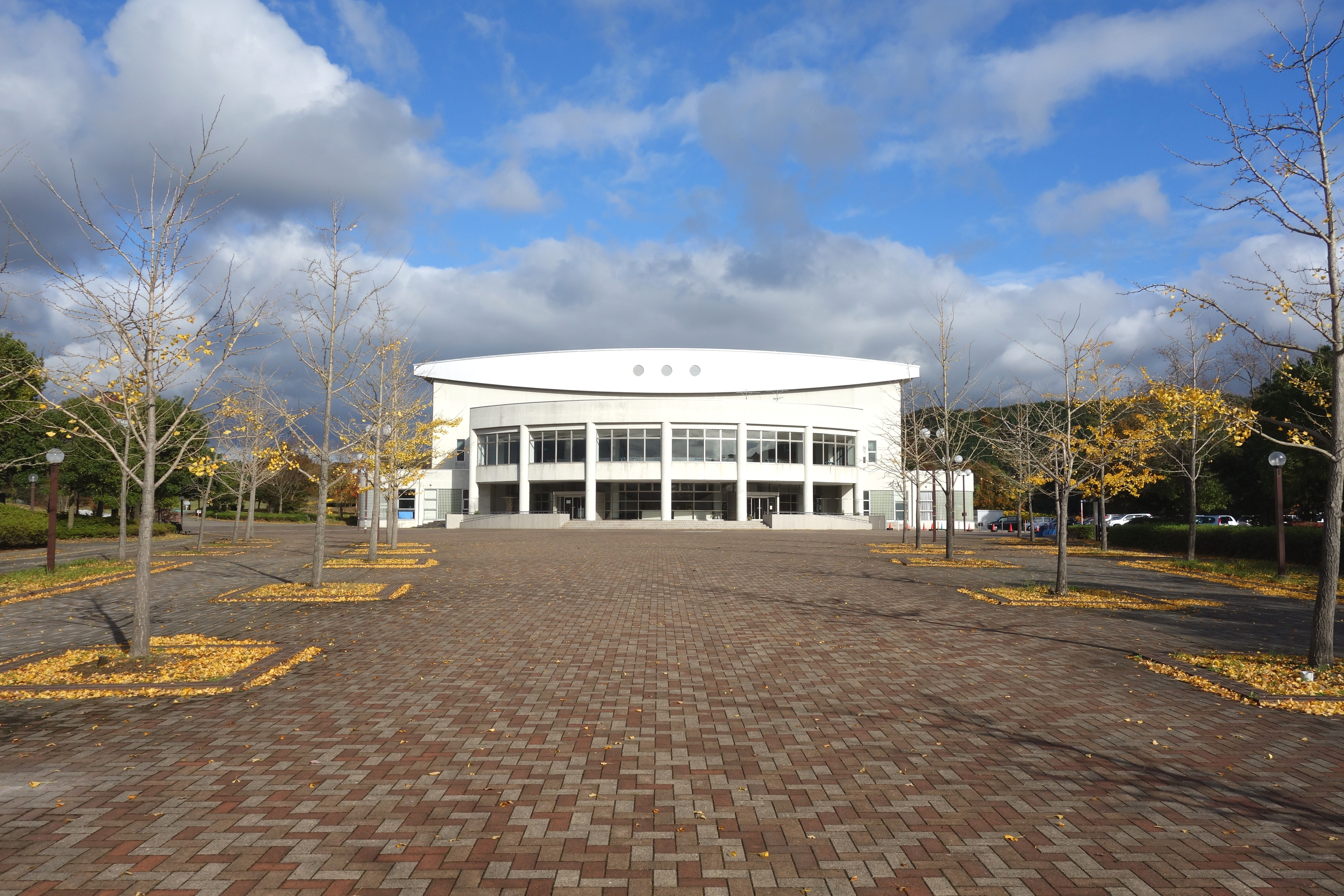 Trim Park Kanazu (Awara City, Fukui Pref., Japan)